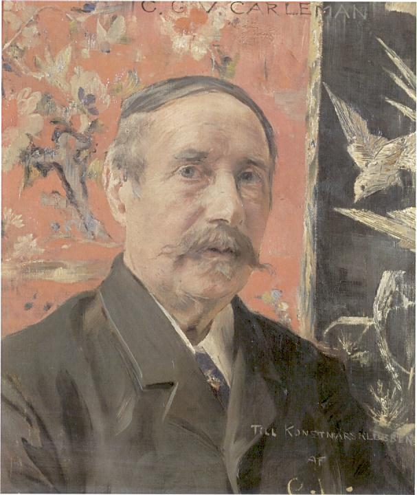 Portrait of CGW Carleman